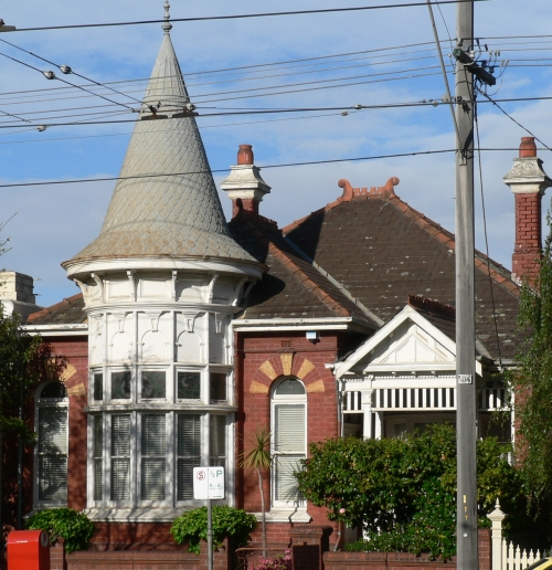 Landmark Edwardian styled home on Canterbury Road. Middle Park, Victoria.